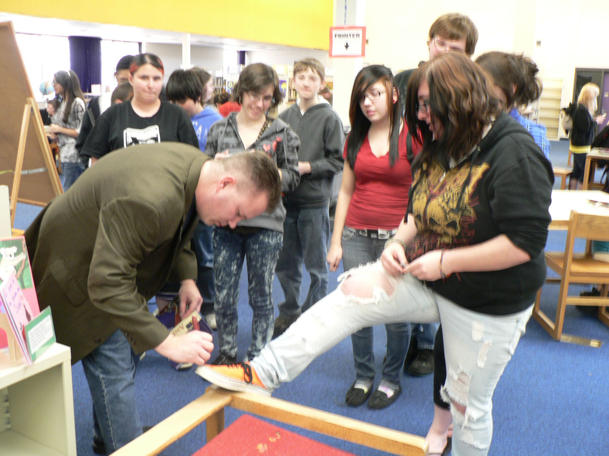 Author and graphic novelist Andy Fish signs autographs at Book Signing